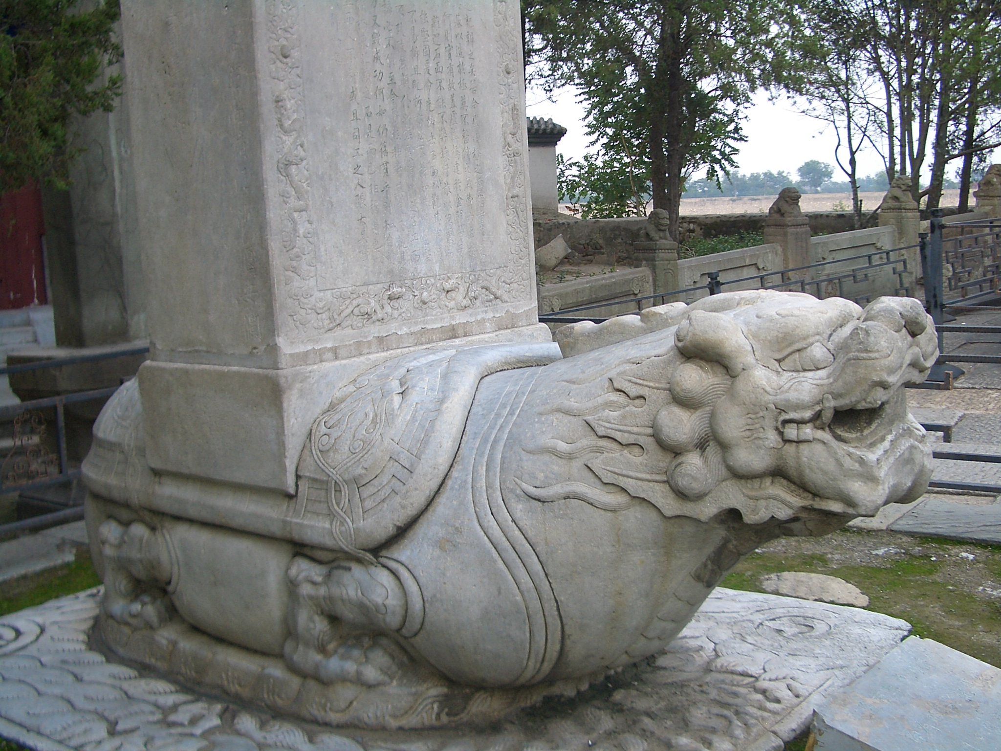 A stele, built on top of a magnificently wrought bixi (stone tortoise), commemorating Qianlong Emperor's rebuilding Lugou Bridge (a.k.a. Marco Polo Bridge) in the 50th year of his reign (ca. 1785). It is located near the western end of the bridge, and is much less eroded than the other bixi-supported stele (at the opposite end of the bridge). This photo has a good view of the bixi's (hairy tortoise's) animated face.